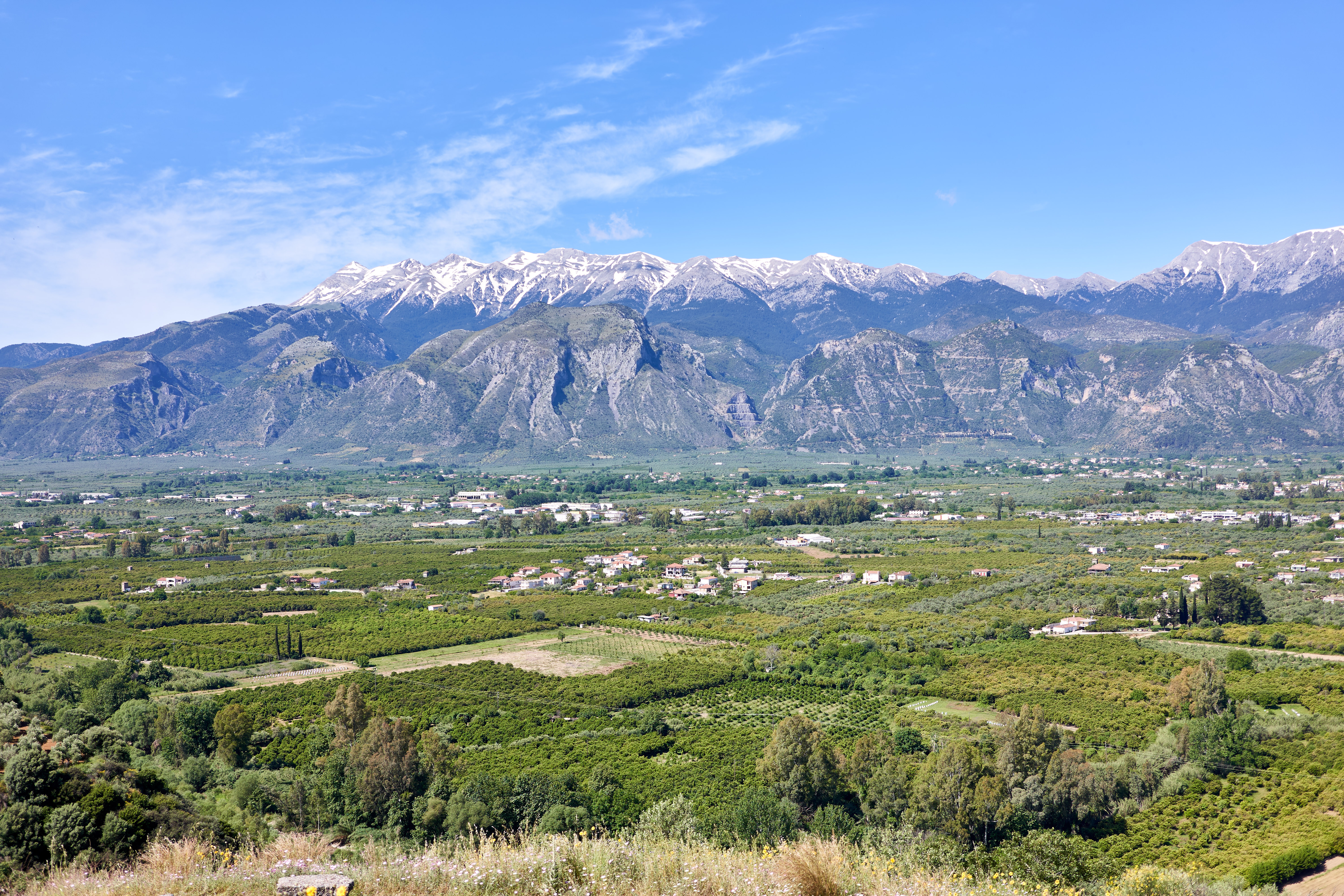 Mount Taygetus (Taygetos). View from the Menelaion. Sparta, Laconia, Greece.